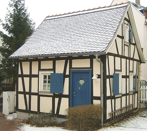 a small local museum in Frankfurt/Main/Germany. taken from the backyard in Winter